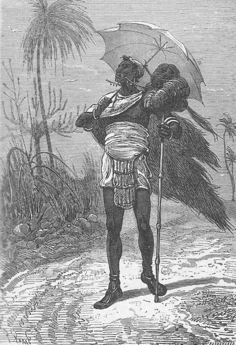 An illustration from Jules Verne's novel "The Adventures of Three Englishmen and Three Russians in South Africa" (1870) drawn by Jules Férat.